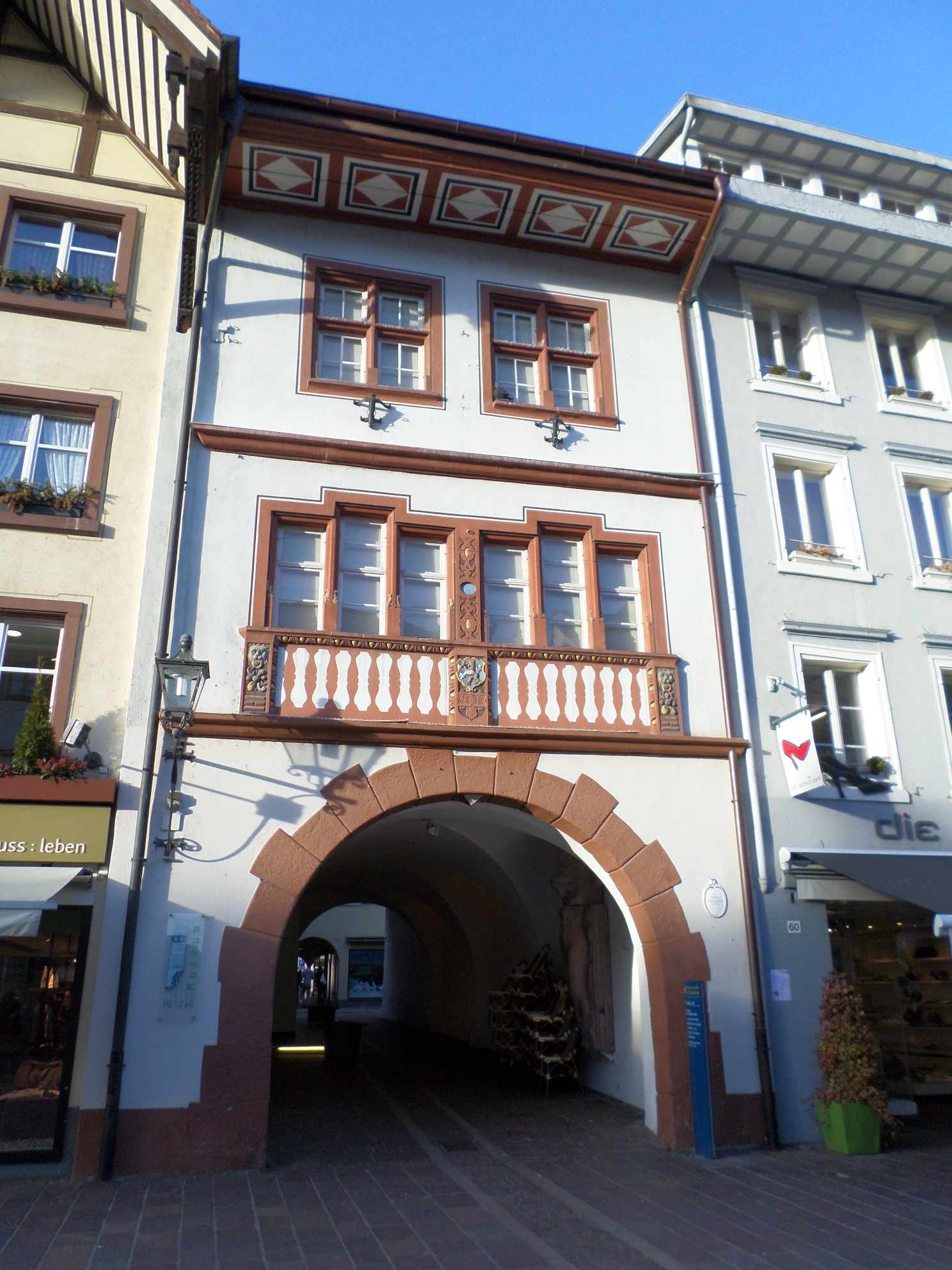 Alte Metzig Museum, Waldshut-Tiengen, Waldshut, Baden-Württemberg, Germany